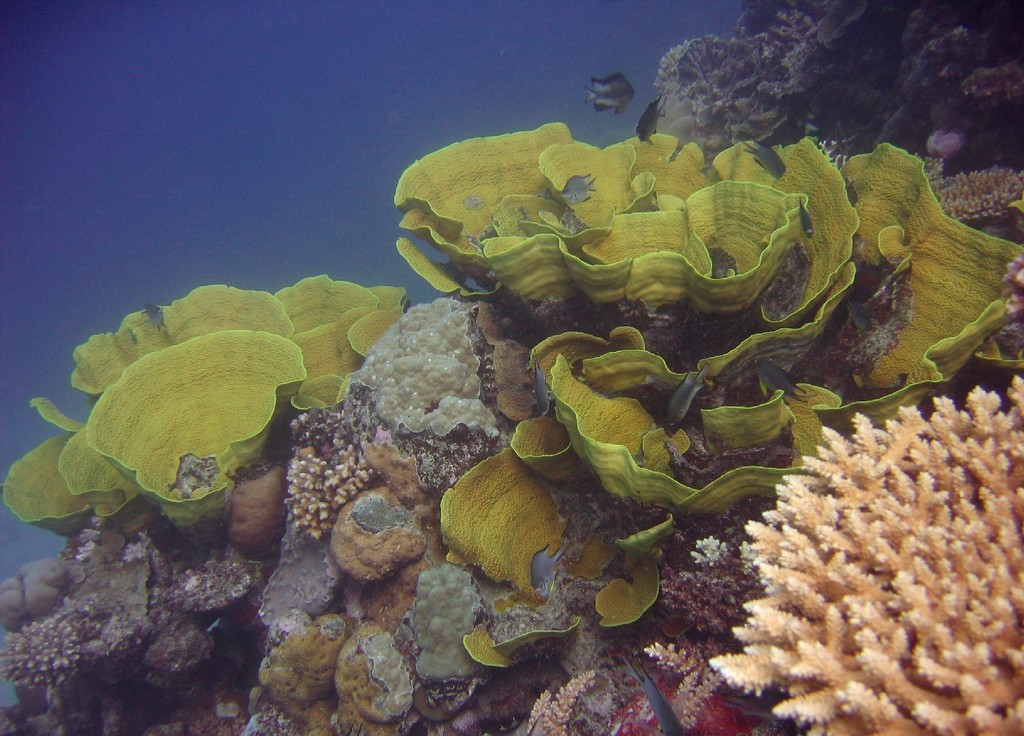 The coral Turbinaria mesenterina. Tracey's Wonderland, Ribbon Reefs, Great Barrier Reef